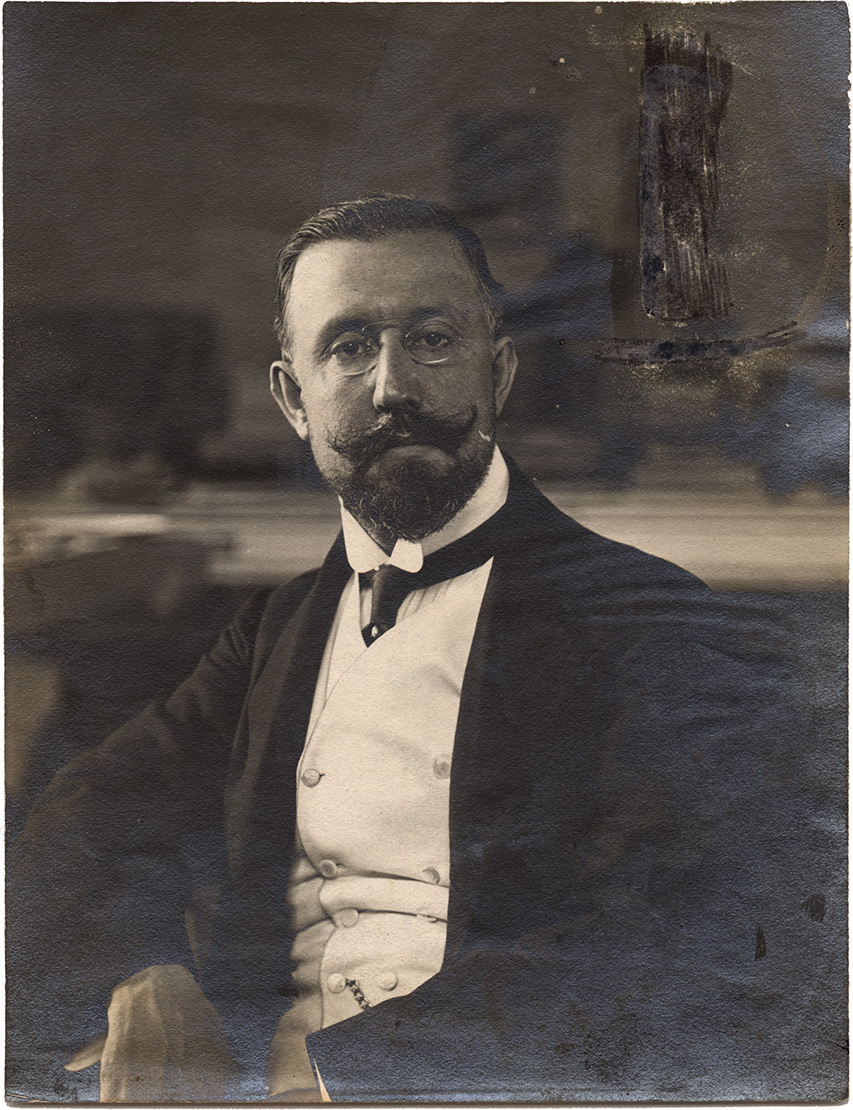 Portrait of Carlo Clausetti, lawyer (1869-1943). Photo by unknown, before 1943.